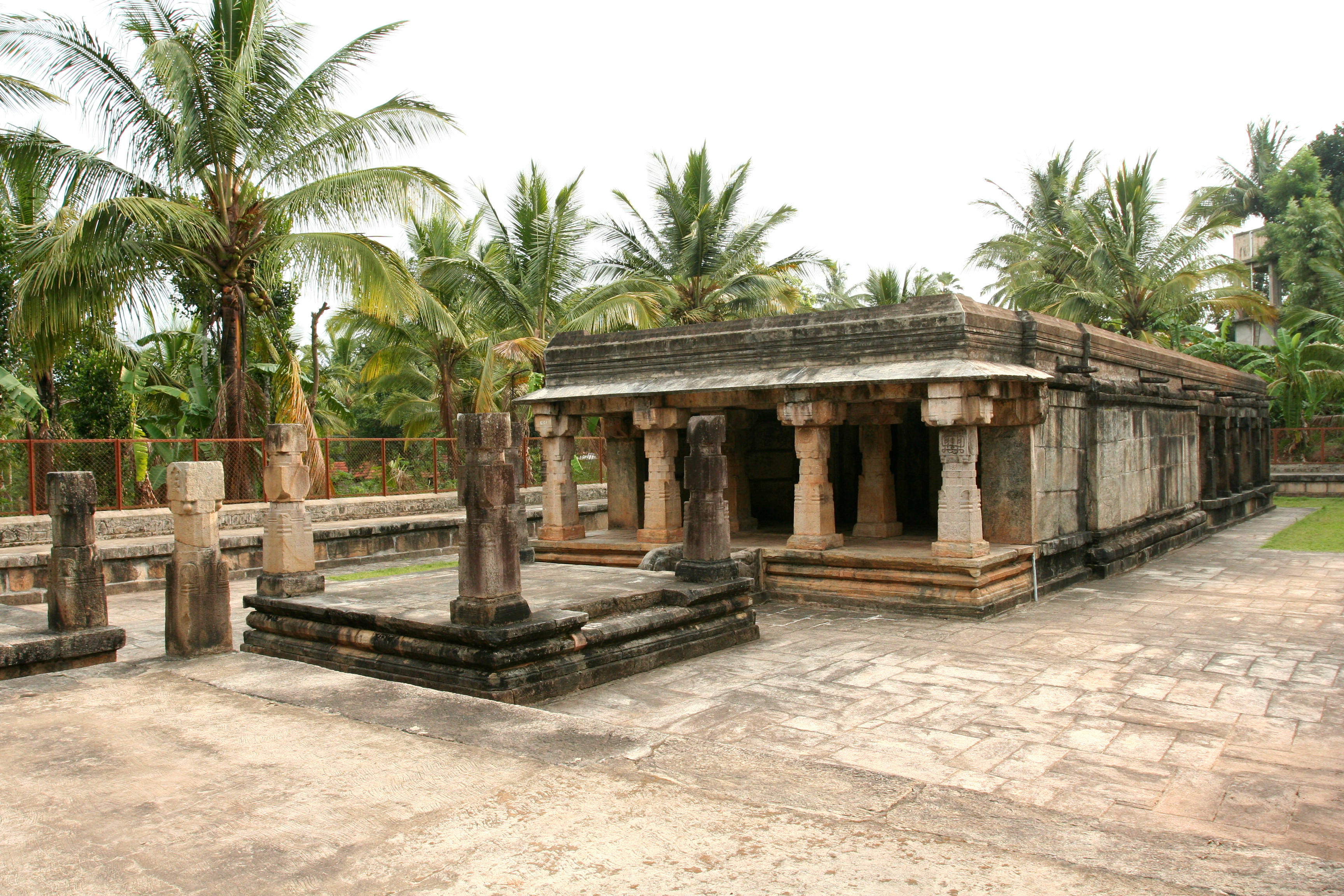 This media file is uploaded with Malayalam loves Wikimedia event - 3.